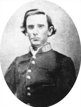 John A. Wharton, Major-General of the Confederate States Army. Source: [1]